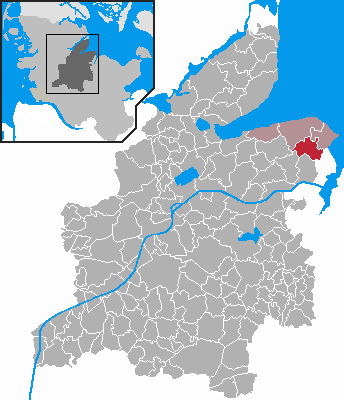 Locator maps of municipalities in Schleswig-Holstein - District Rendsburg-Eckernförde